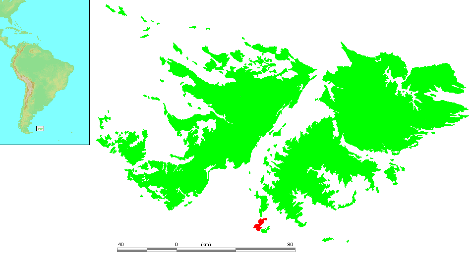 Falkland Islands - George Island.PNG